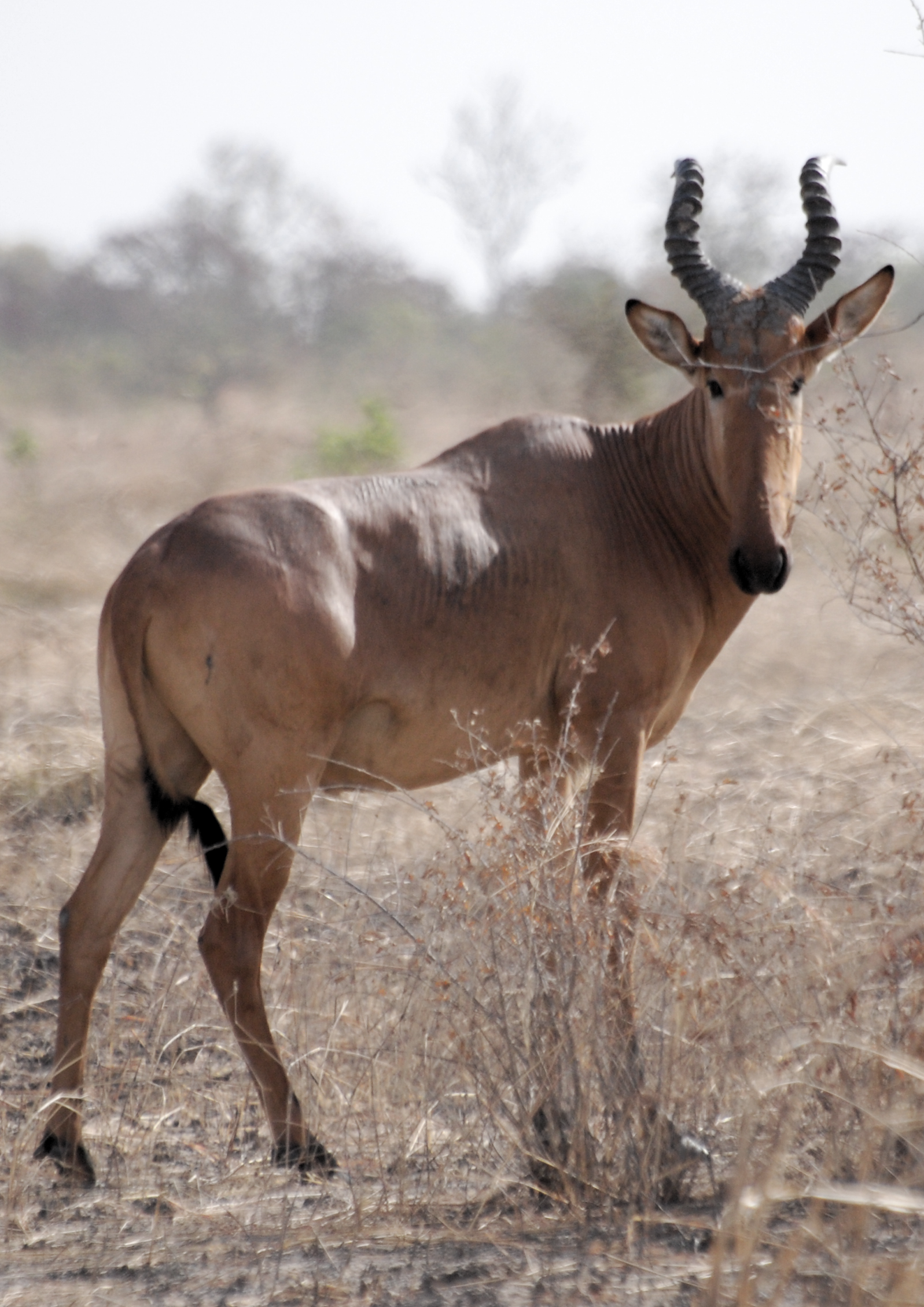 Alcelaphus buselaphus in the Pendjari Nationalpark Benin, West Africa